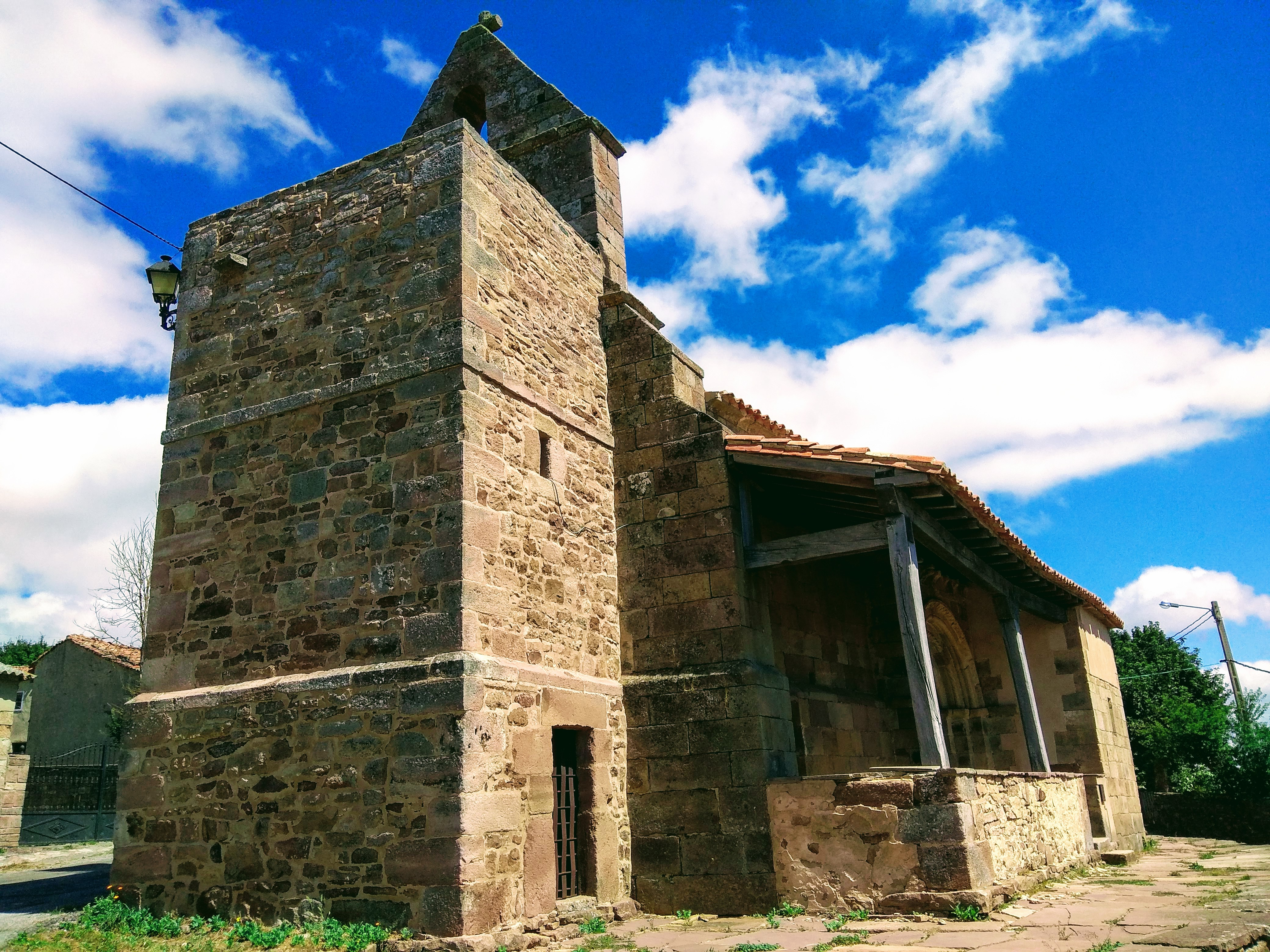 Church of San Martín de Hoyos, in the municipality of Valdeolea (Cantabria, Spain).